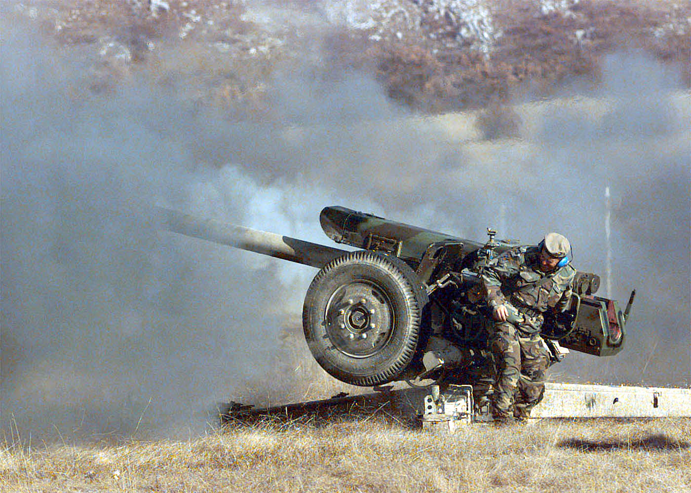 A member of the Croatian Defense Council (HVO) Army, 2nd Guard Brigade, fires a 122mm Howitzer D-30J field artillery piece during a three-day exercise. The HVO Army was granted use of Barbara Range in Glamoc, Bosnia and Herzegovina, for the first time in 18 months to provide training for their troops on the D-30J and the T-55 Main Battle Tank (not shown). Camera Operator: SSGT KIM PRICE Date Shot: 9 Jan 1998 ID: DD-SD-01-05143 980109-F-7866P-532